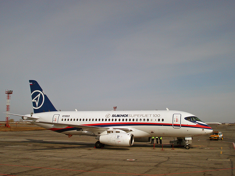 SSJ-100 in OVB